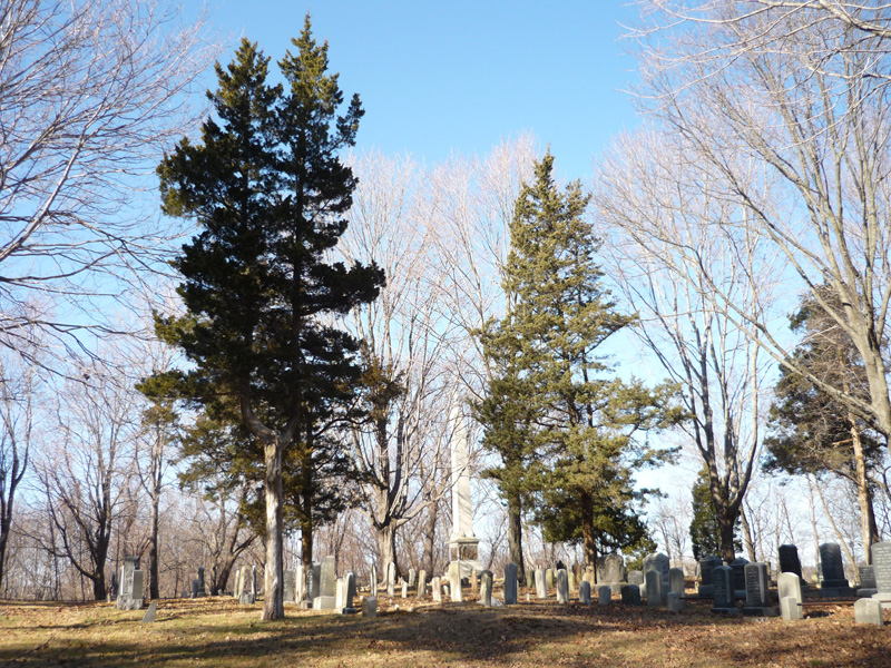 Photograph of the Underhill Burying Ground, taken in Lattingtown, New York.